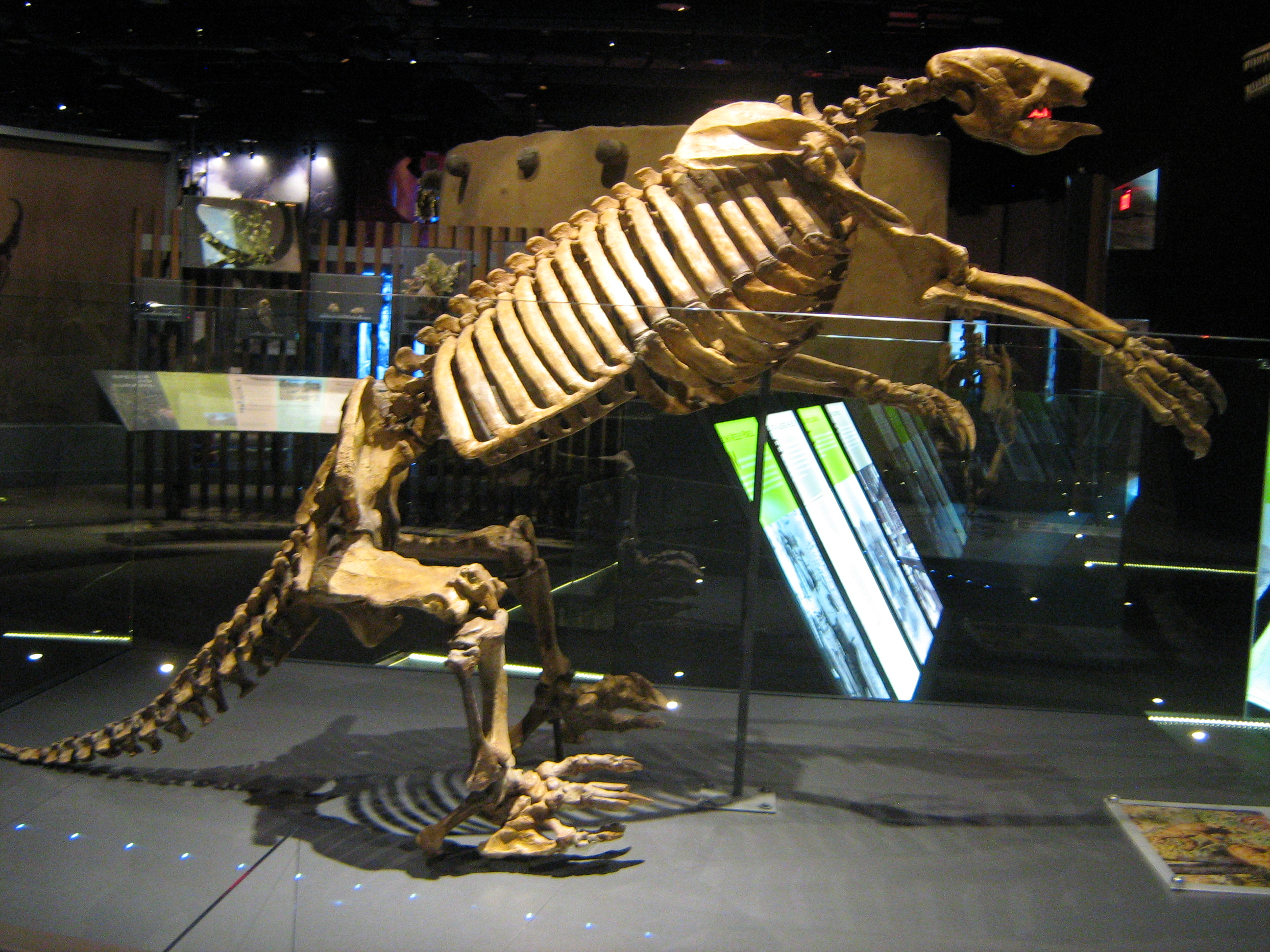 A full replica skeleton of Shasta's Ground Sloth (Nothrotheriops shastensis) on display at Nevada State Museum, Las Vegas.